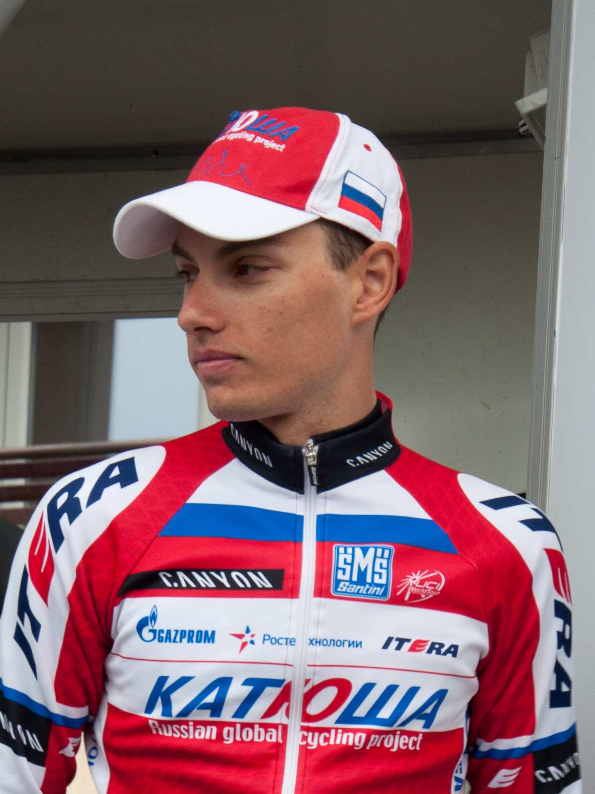 Podium ceremony of Tour de Romandie 2013's stage 5, in Geneva, Switzerland. Simon Špilak entering on the stage.